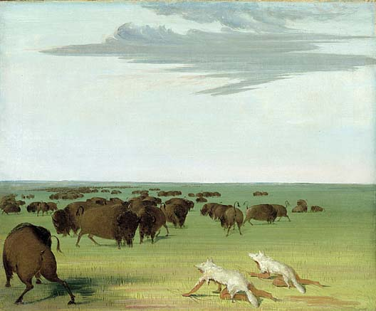 Buffalo Hunt under the Wolf-skin Mask, 1832–33 oil 24 x 29 in. Smithsonian American Art Museum, Gift of Mrs. Joseph Harrison, Jr. Before they acquired horses in the eighteenth century, Indians developed ingenious methods to hunt buffalo on foot. One method was the stealthy approach in disguise. Since more than half the calves born each year died, bison tolerated the packs of wolves that took care of the carcasses. Buffalo were unprepared, however, for Indians in wolves' clothing, who approached "within a few rods of the unsuspecting group, and easily [shot] down the fattest of the throng."